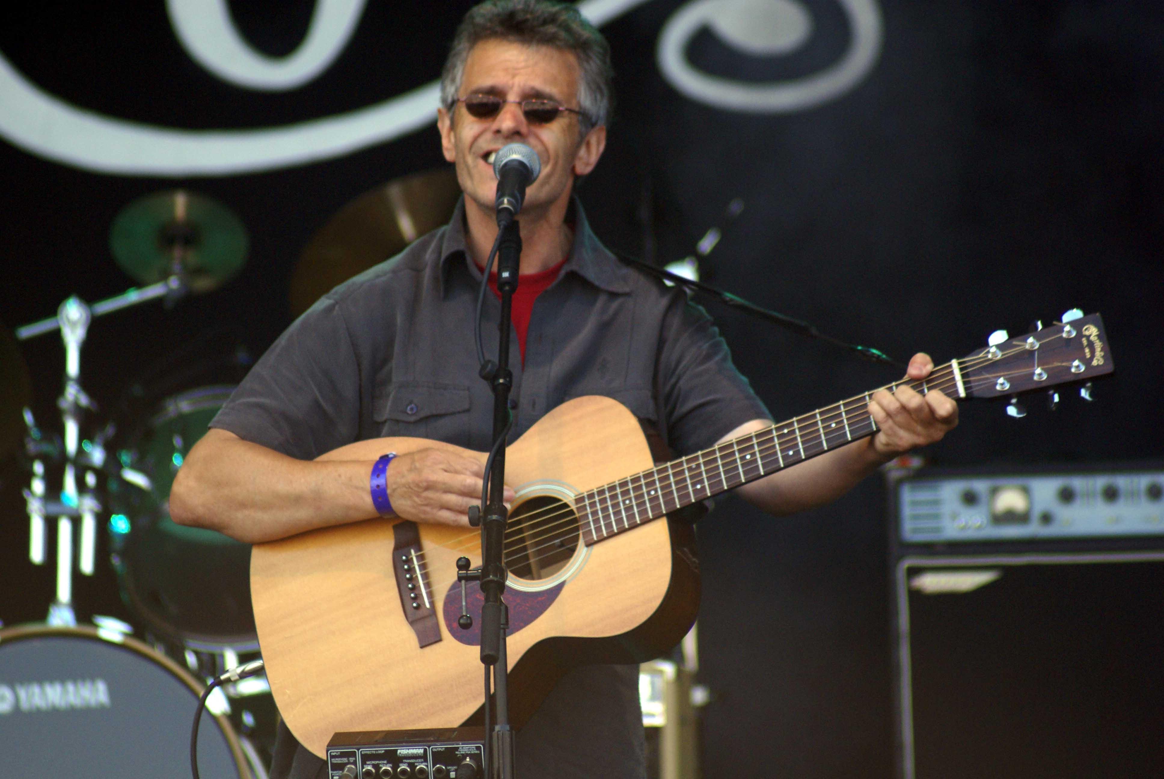 Iain Matthews, founder member of Fairport Convention, at the 2007 Cropredy Festival